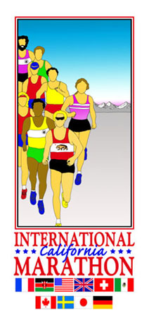 Official race art for the California International Marathon, 1988. Work created by Phil Dynan